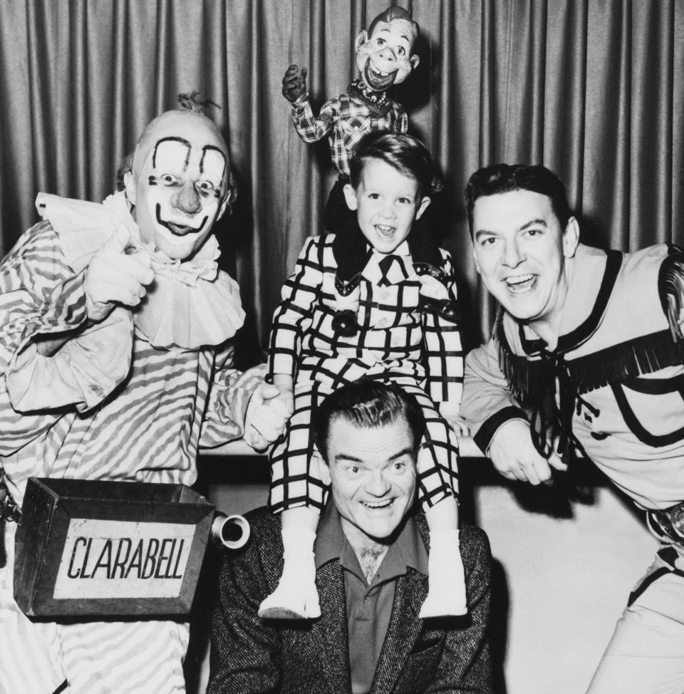 Spike Jones, Jr. with his father, bandleader Spike Jones on the Howdy Doody Show set